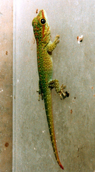 P. m. madagascariensis juvenile Photo credit: Jurriaan Schulman